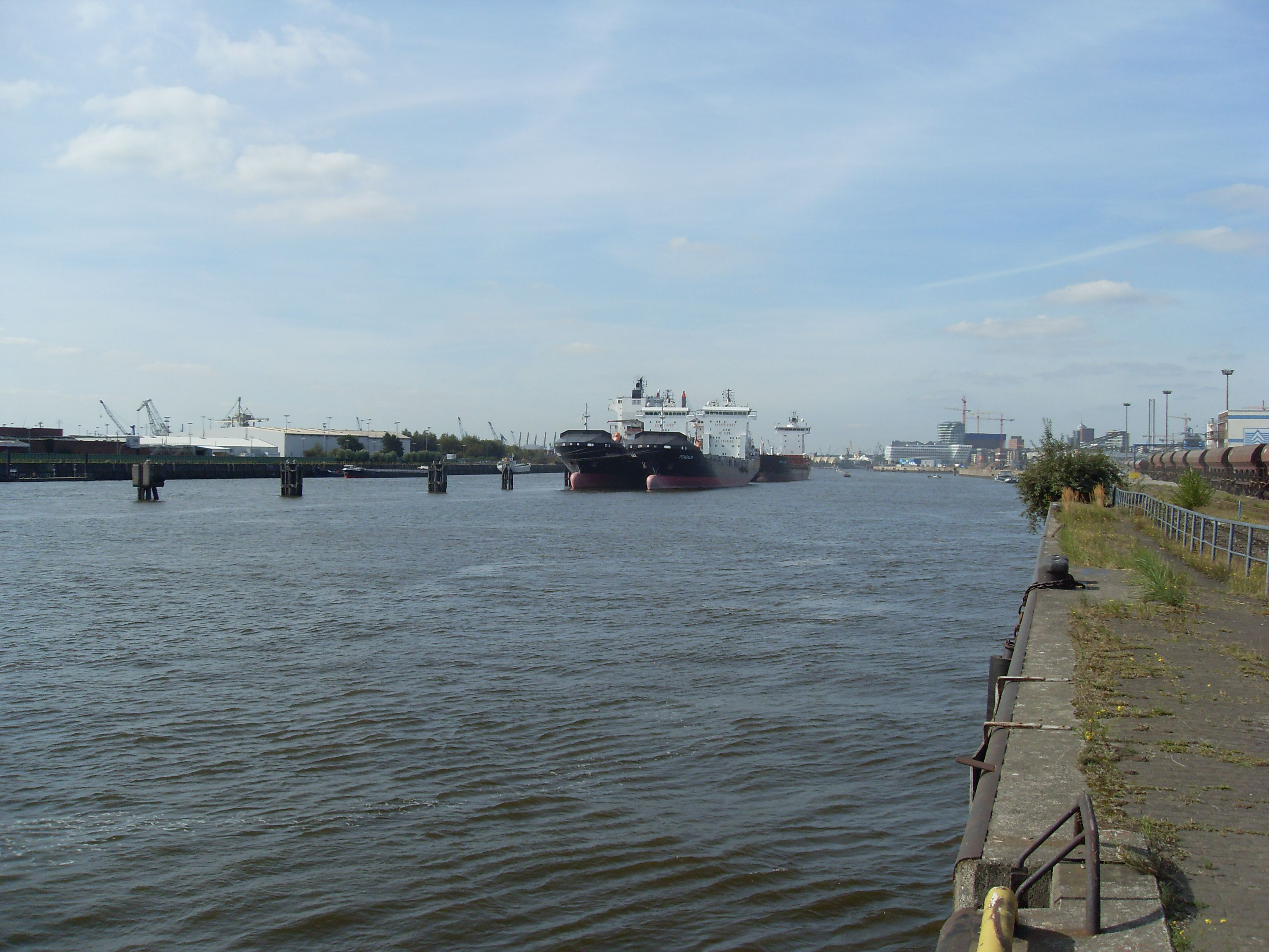 Ships waiting since weeks for new orders in Hamburg (2009)